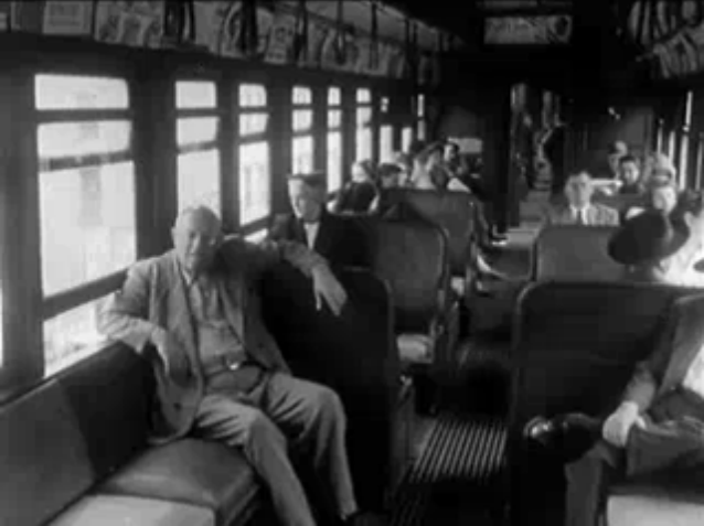 Two Pathé News Magazine of the Screen shots of various Manhattan sights * Screen capture from the film located at: This movie is part of the collection: Prelinger Archives